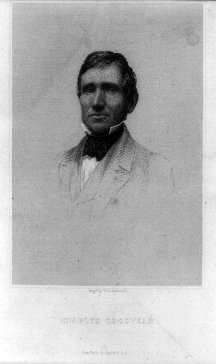 Engraving of Charles Goodyear.